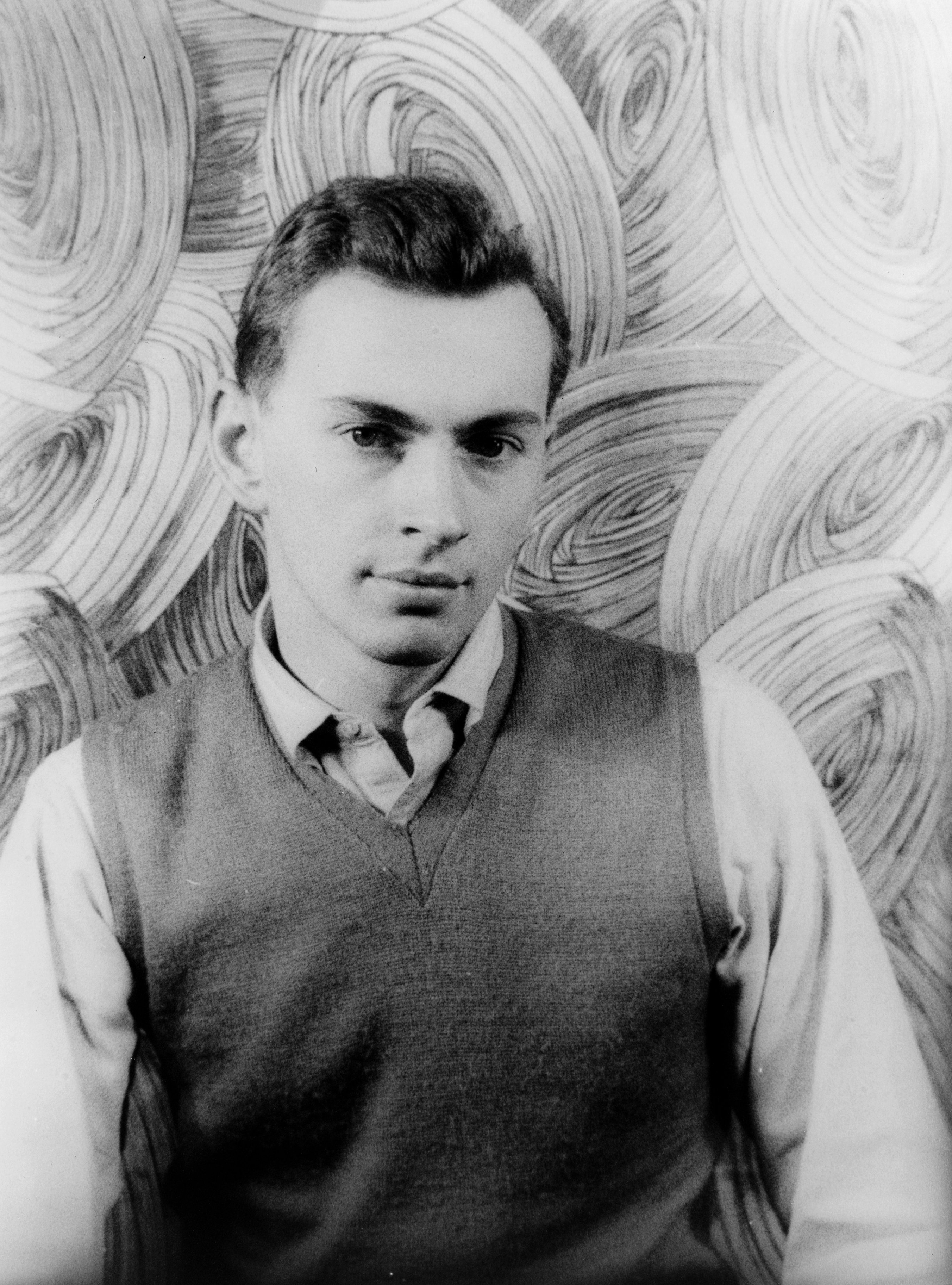 Gore Vidal at age 23, November 14, 1948